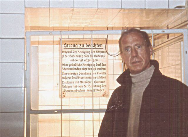 Erik Pevernagie at an exhibition held in an old swimming pool in East Berlin in 2004 Previously published: Website Ric's River Boat